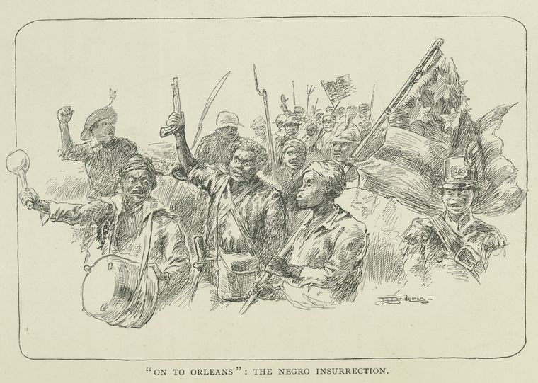 The 1811 German Coast Uprising was a slave revolt in parts of the Orleans Territory in the United States.